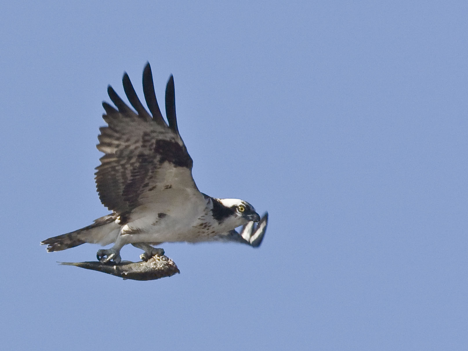 Osprey (Pandion haliaetus) with fish, in Morro Bay, CA. 24 Dec 2007 24dec2007 - Photo by Michael Mike L. Baird, Canon 1D Mark III with 600mm IS lens w/ 1.4X II TE and polarizer.